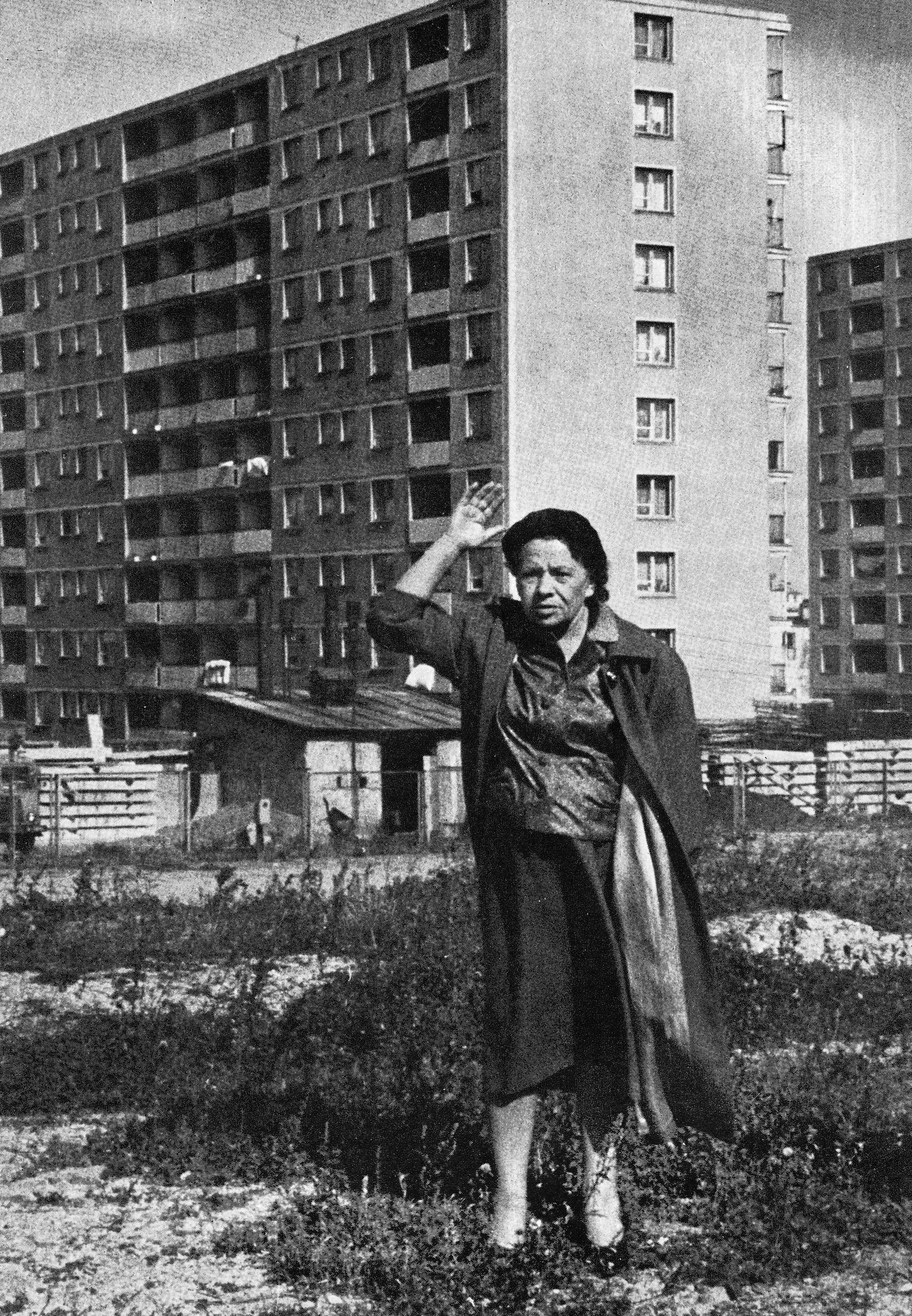 A writer Pola Gojawiczyńska on the site of former Serbia prison in Warsaw